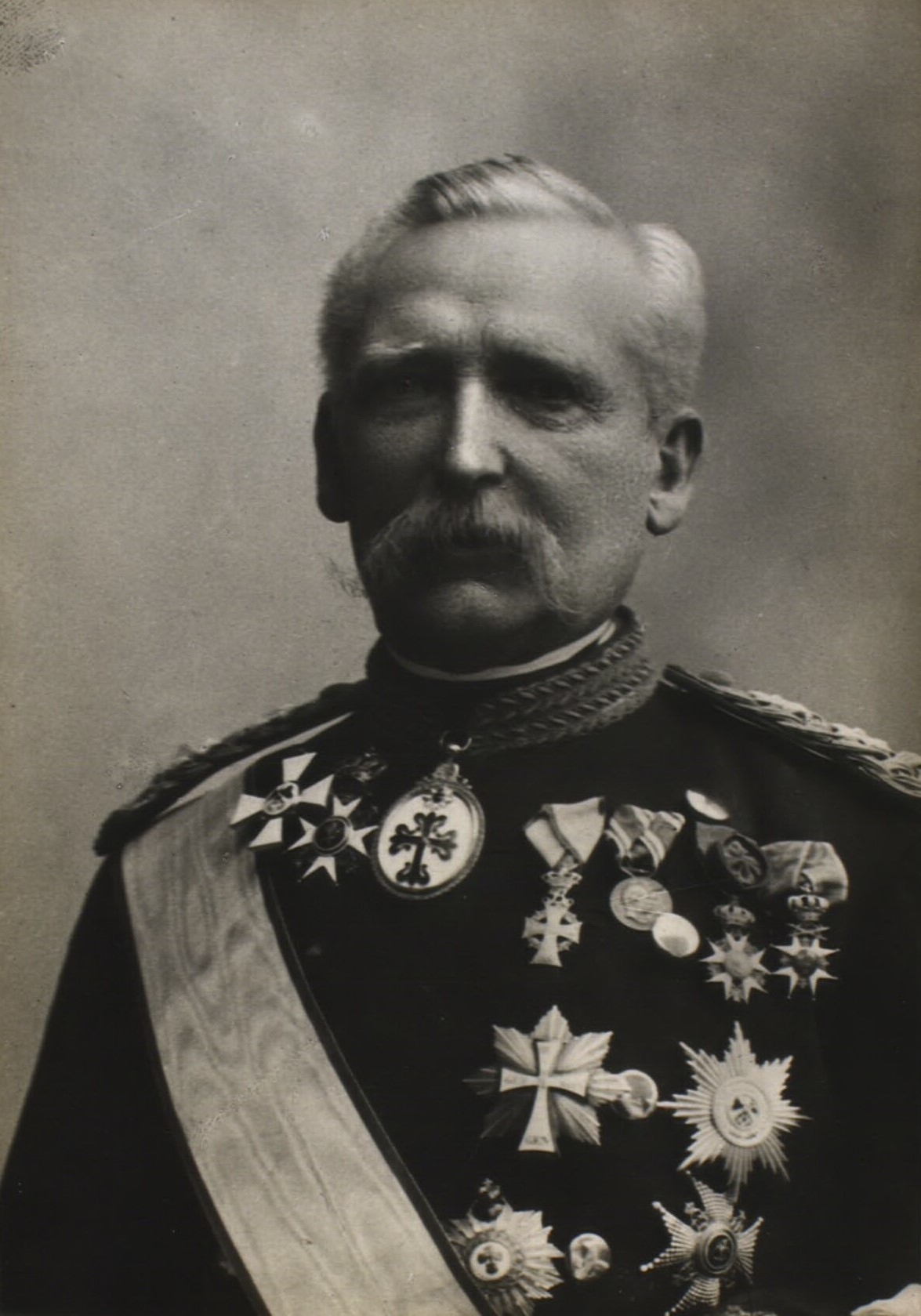 Wilhelm Frederik Ludvig Kauffmann (1821-1892), Danish general